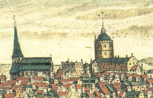 Copperplate of Storkyrkan and the Tre kronor (castle), Stockholm. Produced in the 1560s by Frantz Hogenberg.